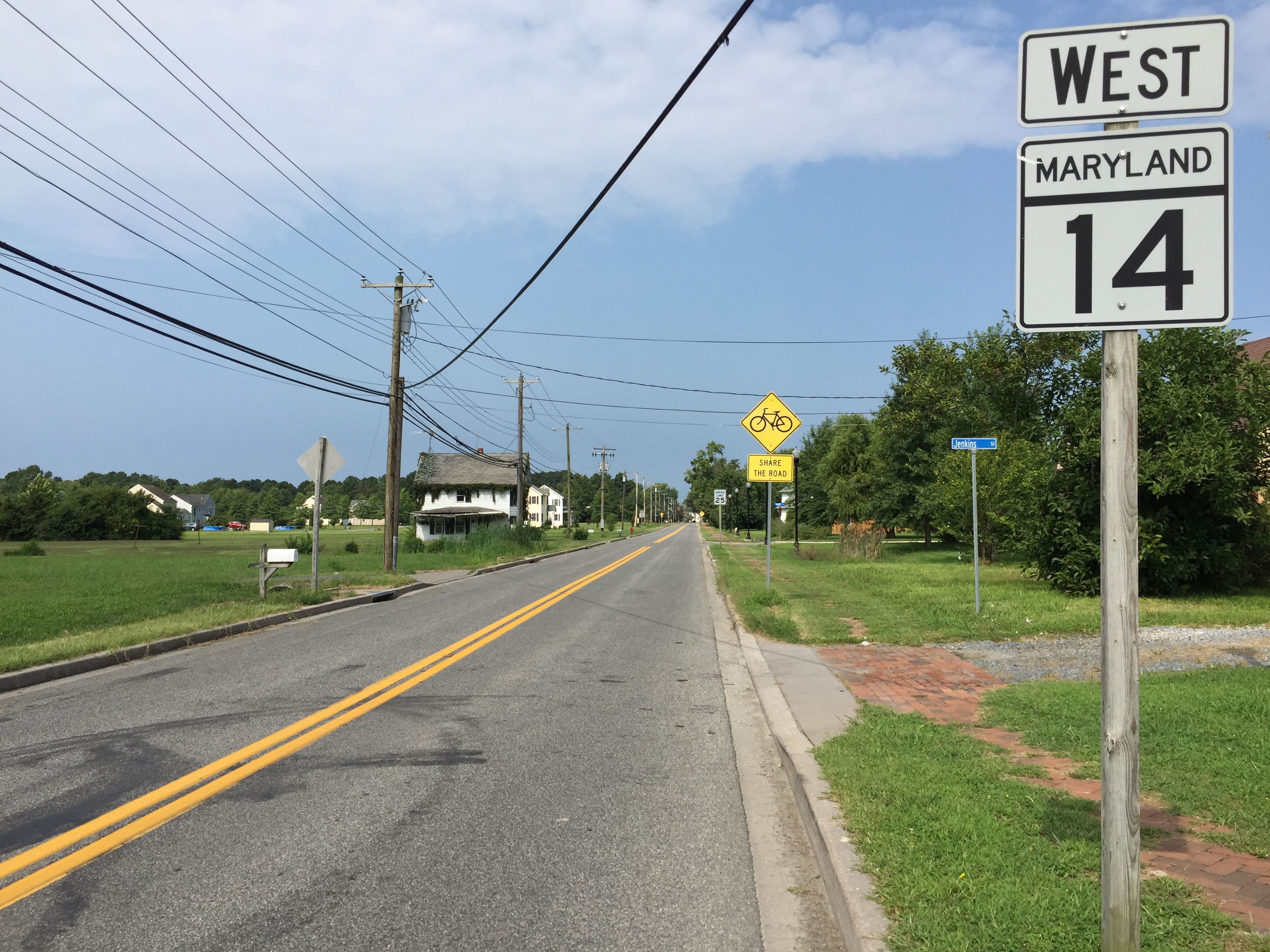 View west along Maryland State Route 14 (Railroad Avenue) at Jenkins Street in East New Market, Dorchester County, Maryland